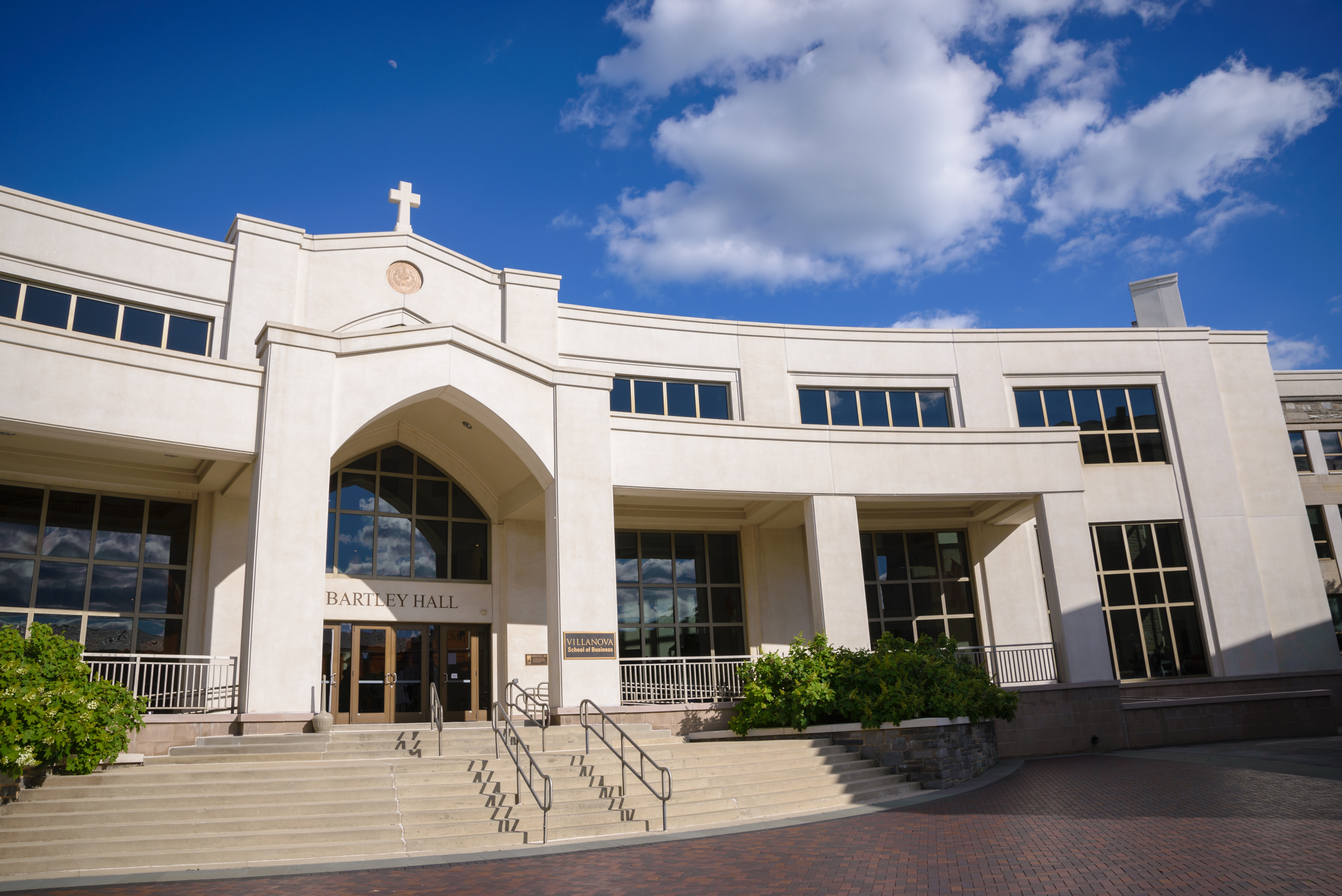 Front of Bartley Hall